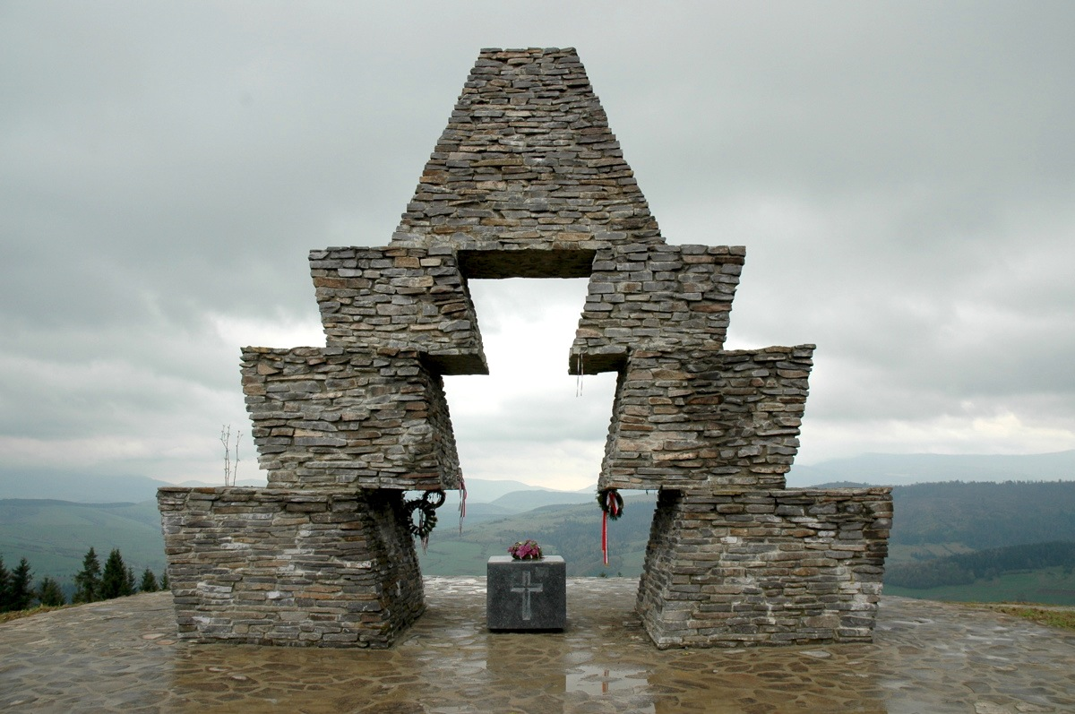 Hungarian Conquest memorial at the Verecke Pass (Transcarpathian oblast, Ukraine)